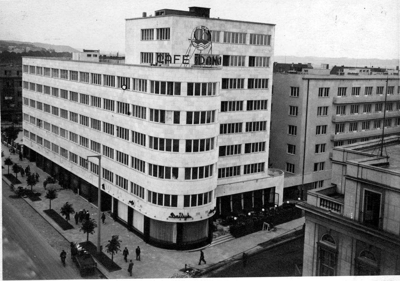 ZUS (after war called PLO) building by Roman Piotrowski created in 1936 in Gdynia, Poland.